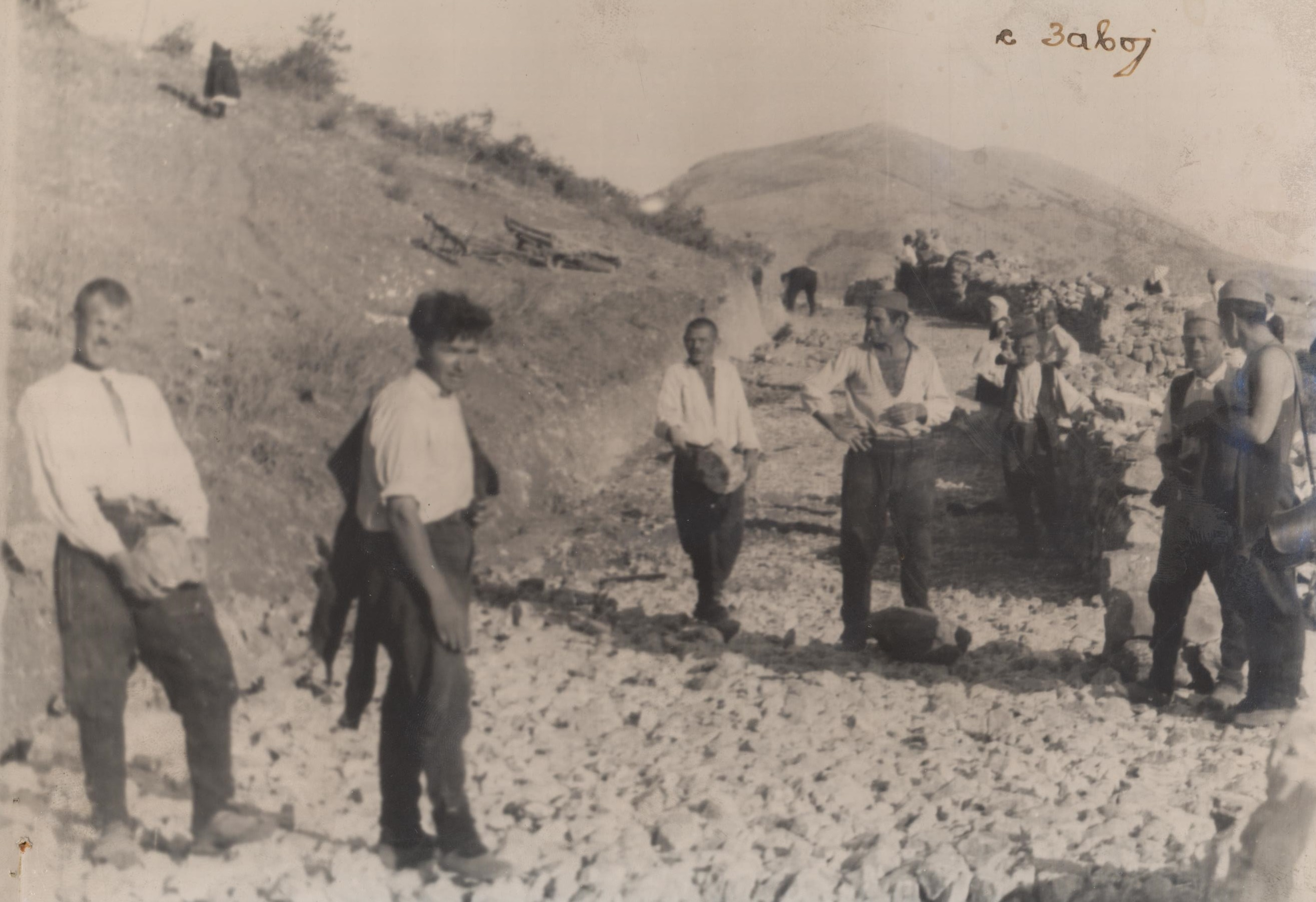 Construction of the road Pirot Velika Lukanja in 1956.